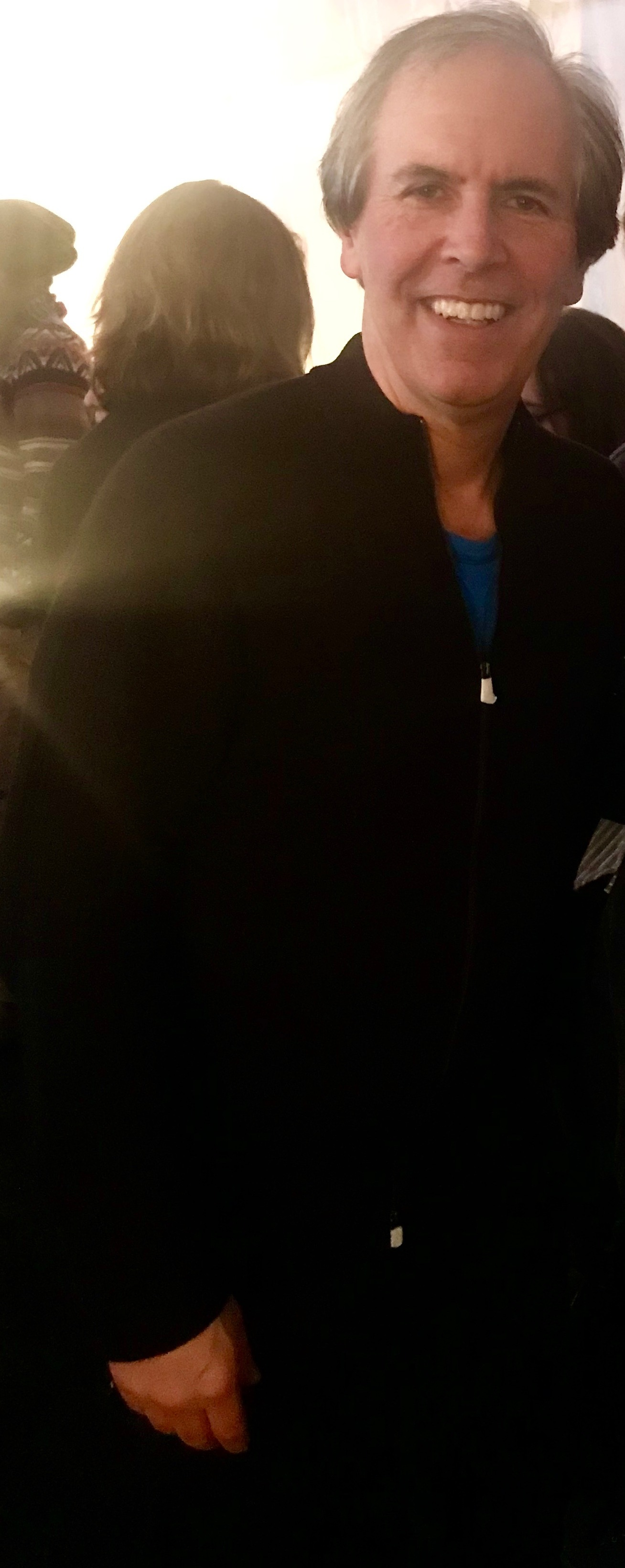 Robert Miller and Ethan Hawke at the premiere of Eugene Jarecki's documentary THE KING.